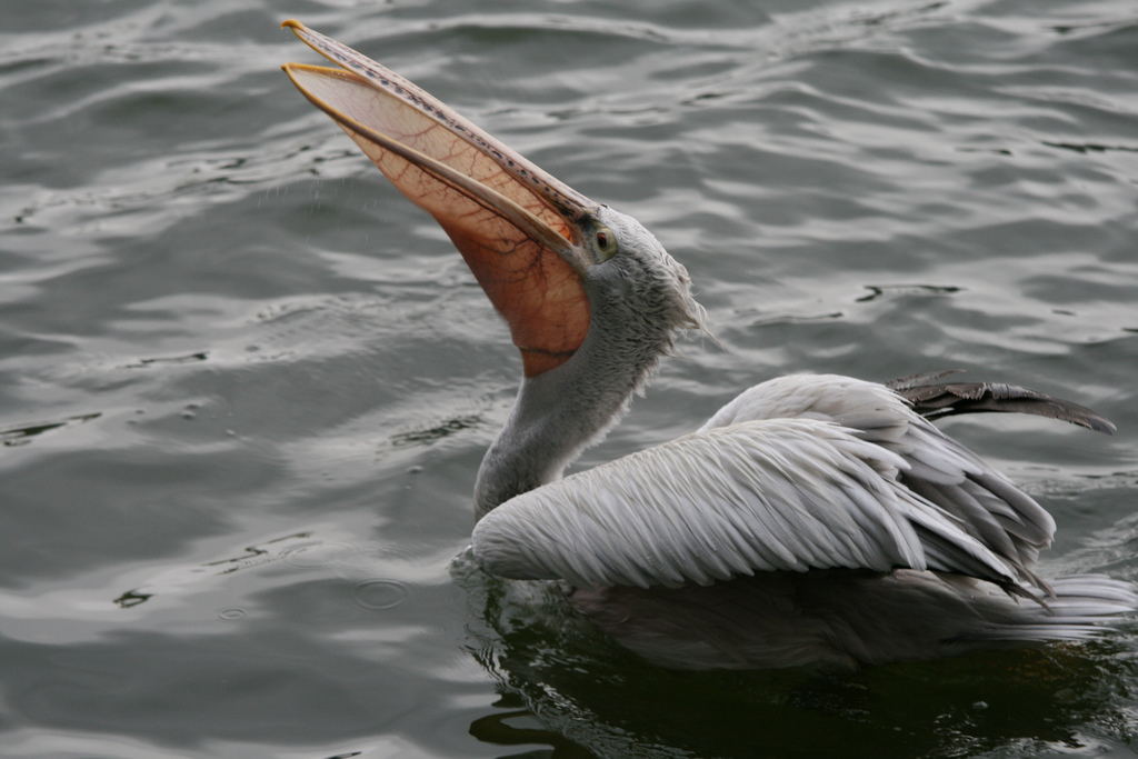 Pelecanus philippensis (Spot-billed Pelican).